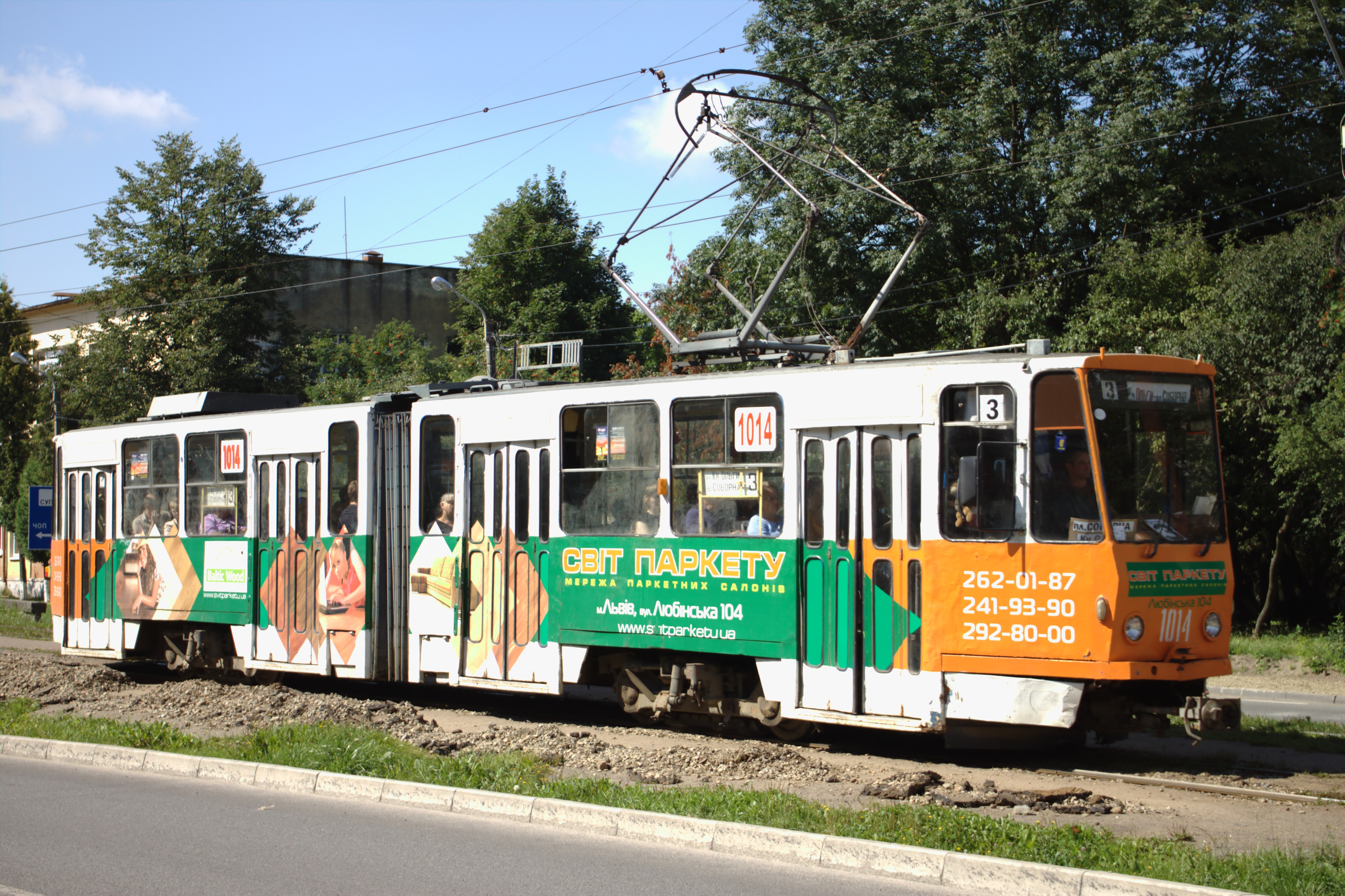 A KT 4 tram heading to the central parts of Lviv, Ukraine